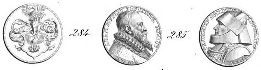 Mince Adama Myslíka z Hyršova a Prudencie roz. Doubravské z Doubravy